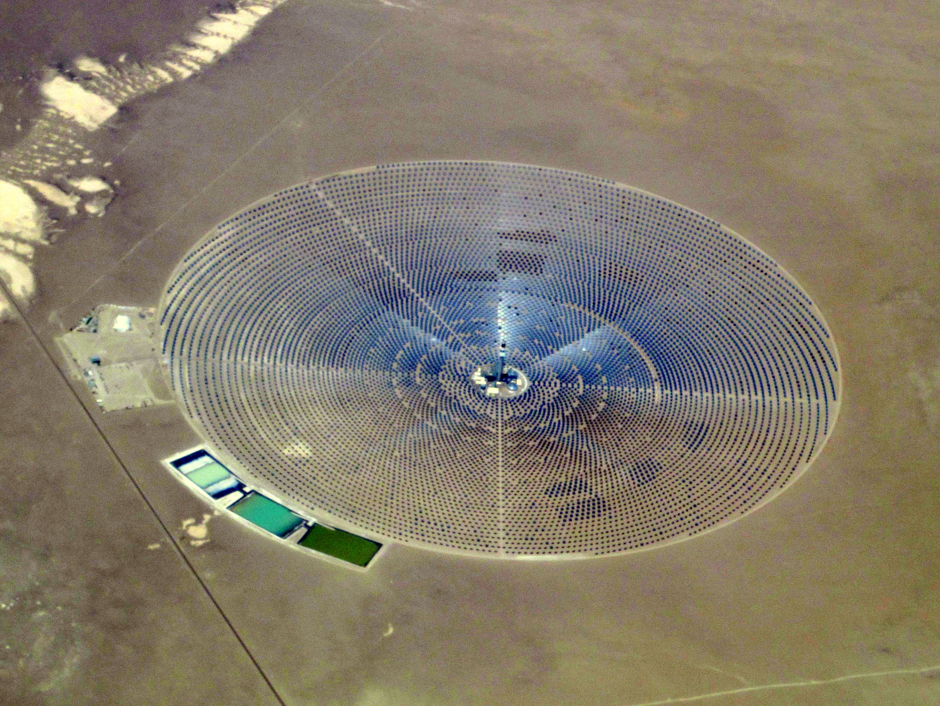 Aerial view of Crescent Dunes Solar Energy Project in June 2017